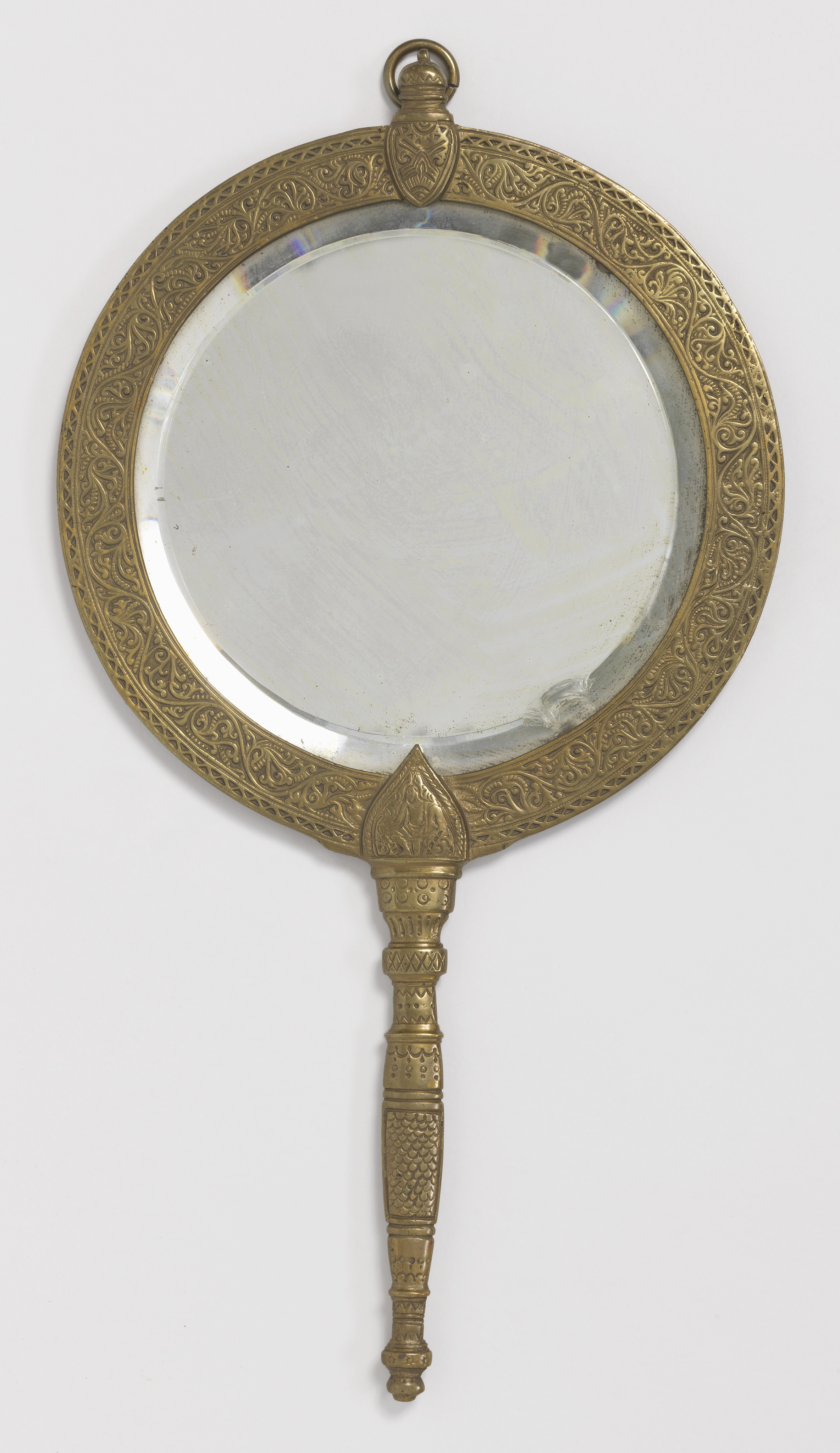 Circular hand mirror